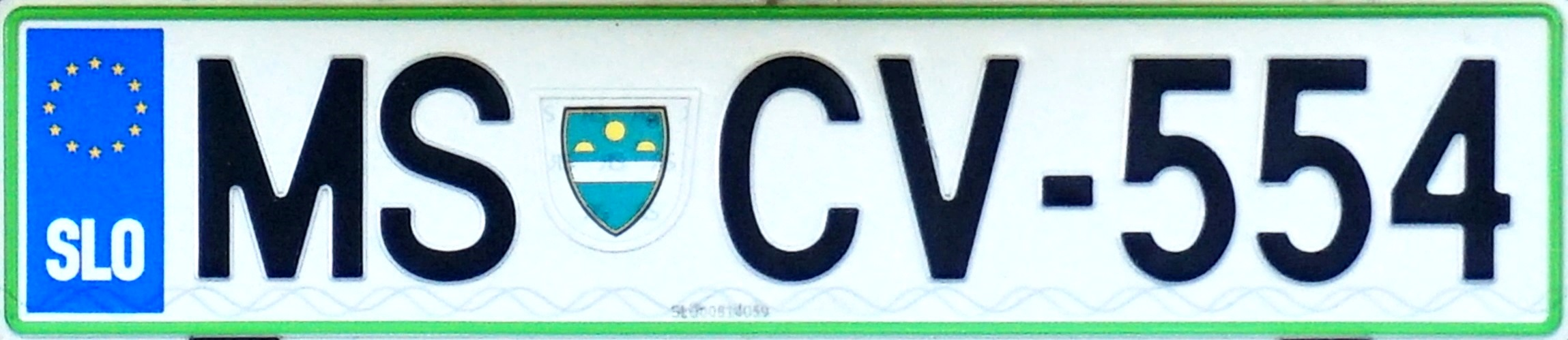 Slovenian license plate with the sticker of Murska Sobota administrative unit